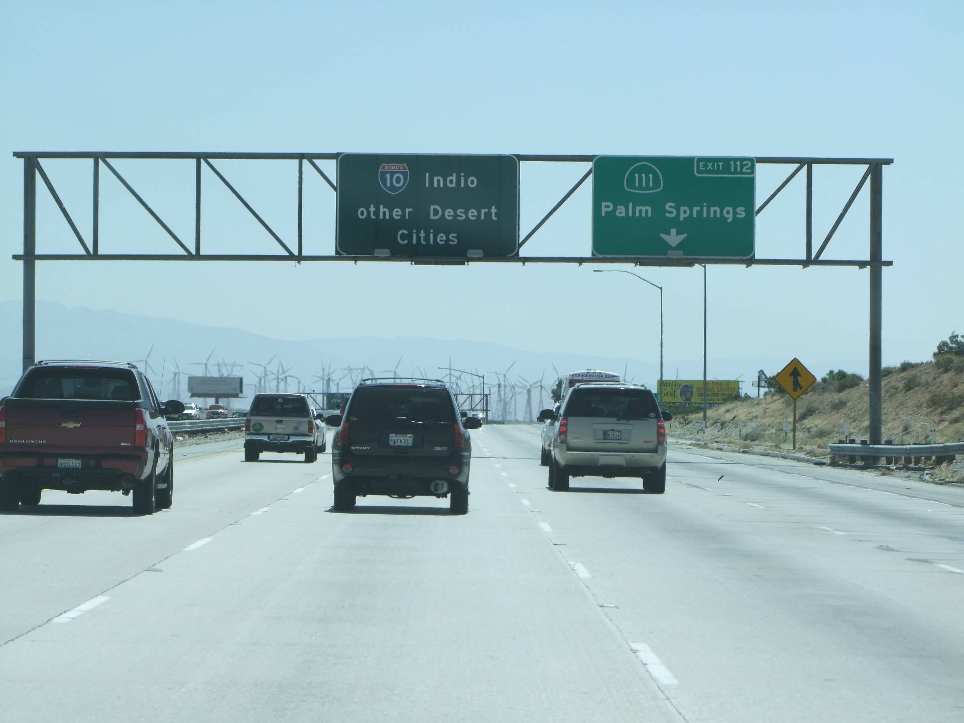 Interstate 10 EB, Indio and "other Desert Cities", Exit 112 Palm Springs